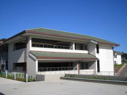 Punahou School 7th Grade Case Middle School Classrooms. The middle school buildings were built with money from Steve Case (class of 1976) and the middle school was named after Case's parents.